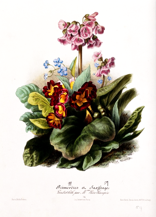 Primula and Saxifraga species - Coloured lithographs by E. Champin, after herself Date